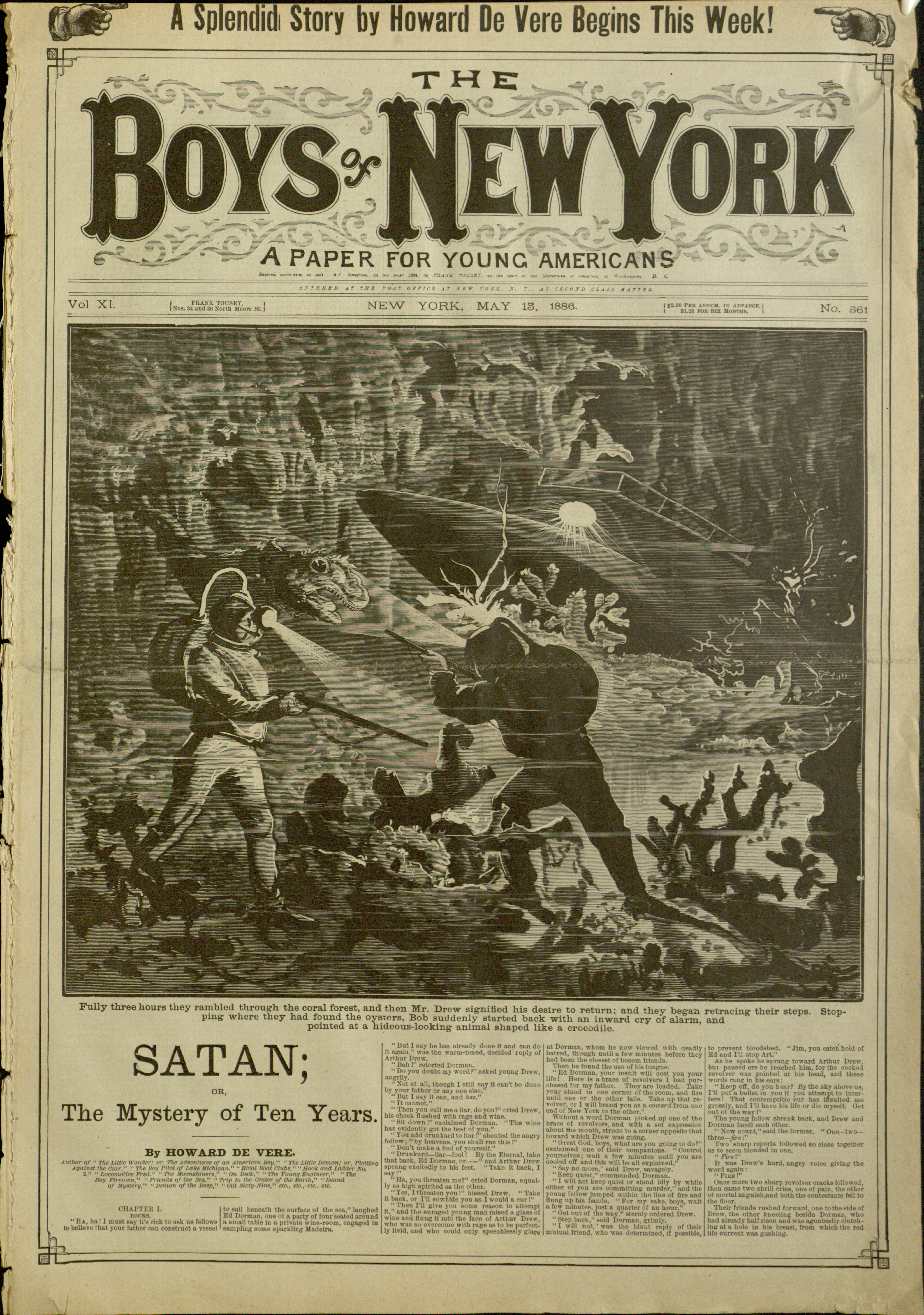 Front cover of The Boys of New York v.11 no.561, showing an attack of a "hideous-looking animal shaped like a crocodile" upon two sea-bound adventurers.